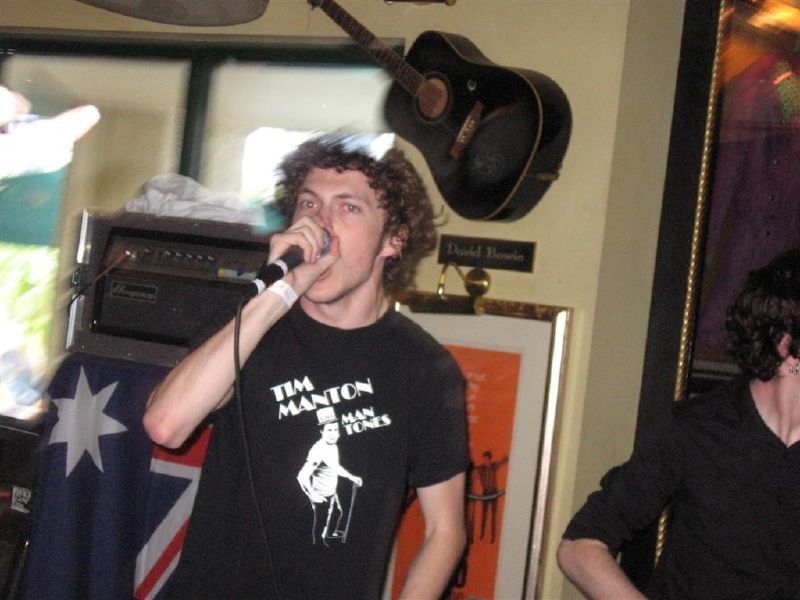 Australian rock band After the Fall performing at Schoolies 2005 at the Hard Rock Cafe in Surfers Paradise, Queensland.